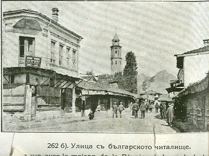 Centre of Prilep with Saat kule and bulgarian school